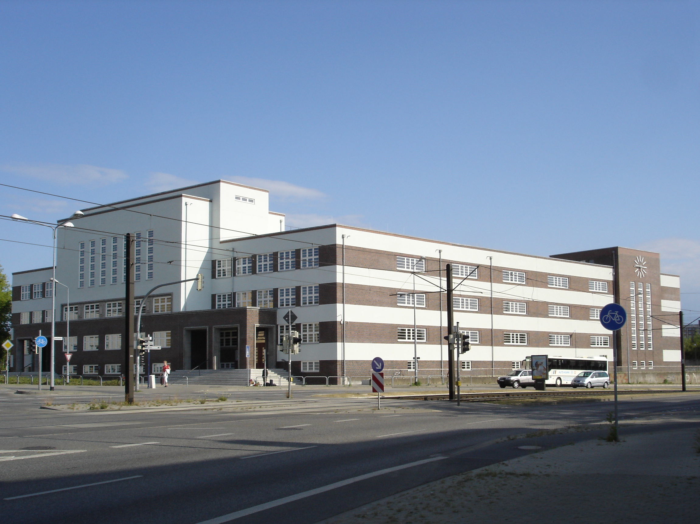 schoolbuilding in the style of New Objectivity in Rostock